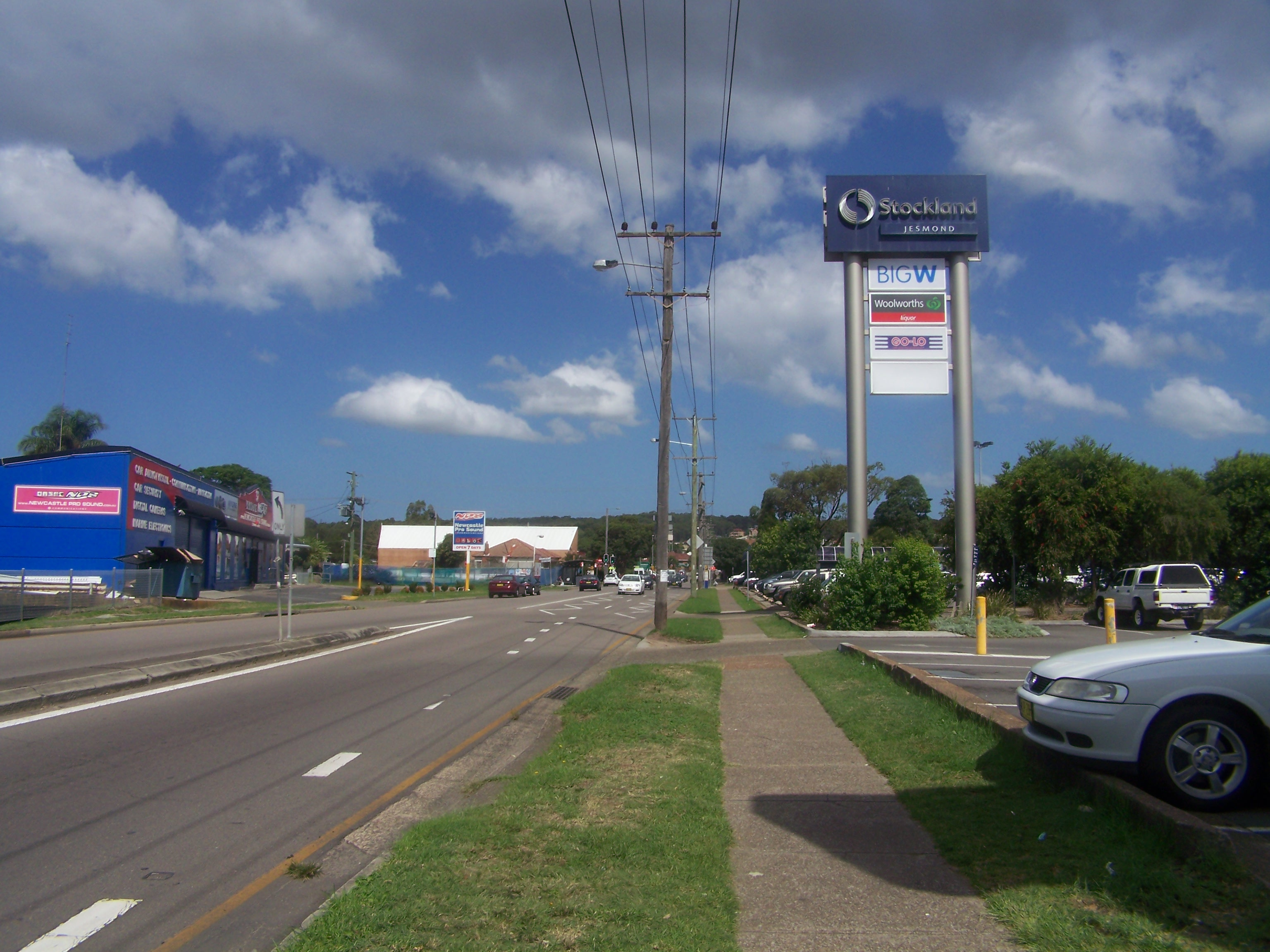 Blue Gum Road, Jesmond. Main road for Stockland Jesmond.